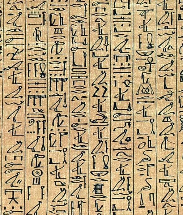 Image title: Papyrus ani curs hiero Image from Public domain images website